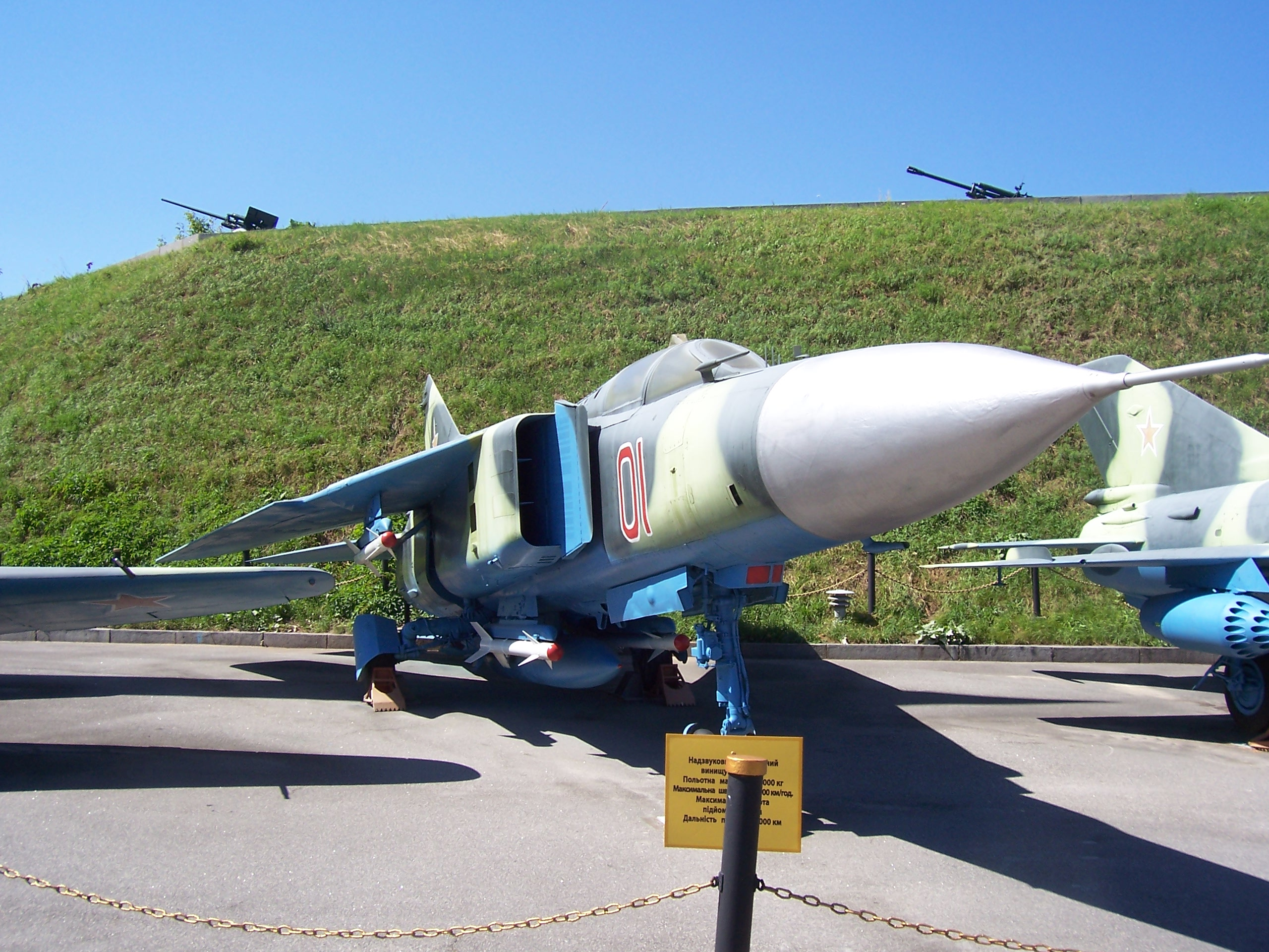 A Mikoyan-Gurevich MiG-23 on display in the Museum of the Great Patriotic War, Kyiv.